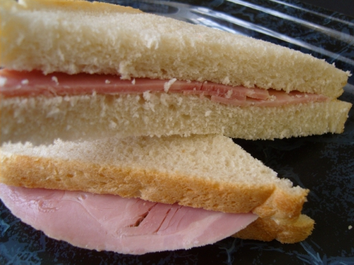 A plain ham sandwich